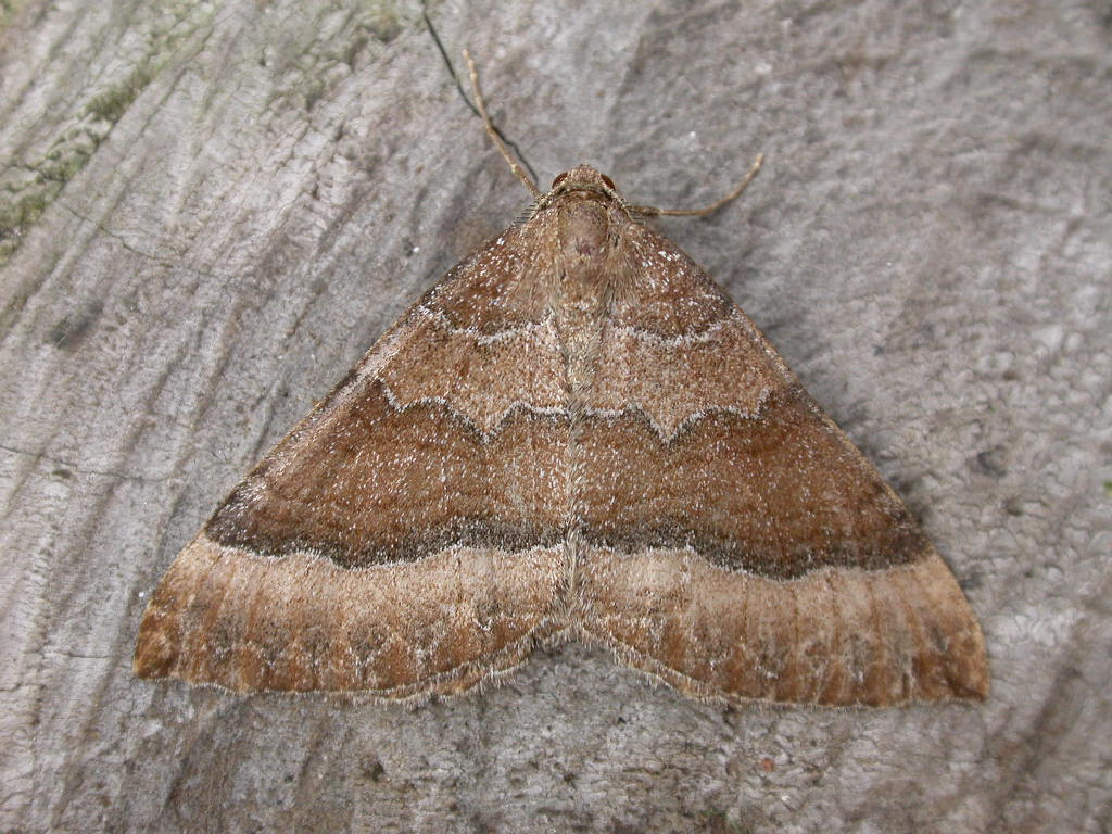 Larentia clavaria, to MV light, Hellerup, Denmark, 27 September 2005